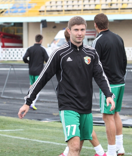 Andriy Oberemko is a Ukrainian professional football (soccer) player